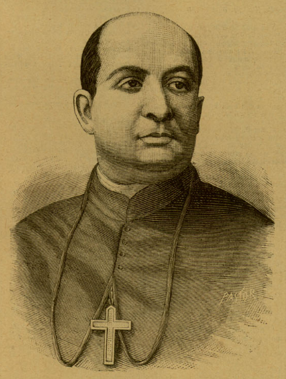 D. Ignacio Montes de Oca, Mexican bishop, in a 1888 engraving.